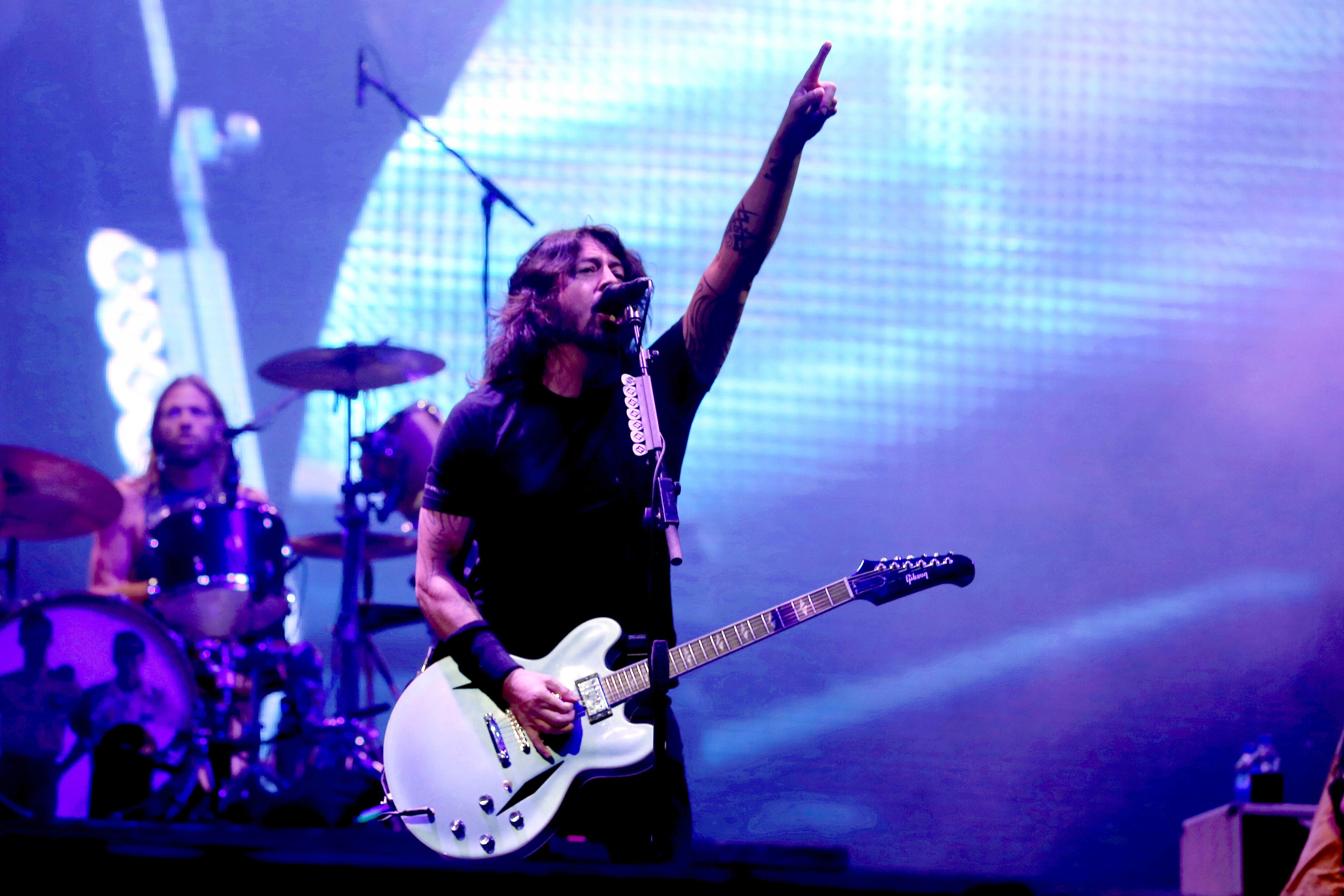 Foo Fighters at Southside Festival 2019